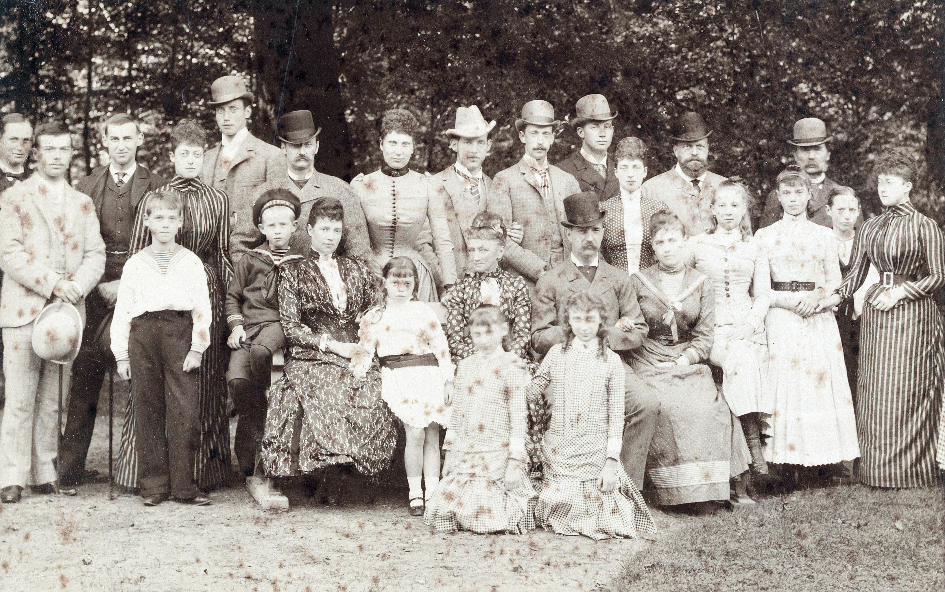 Family of Emperor Alexander III and Empress Maria Feodorovna with members of the Danish Royal Family in the park of Fredensborg Palace. (l-r): Top row: Prince Carl of Denmark (1872–1957), since 1905 King Haakon VII of Norway; Tsarevich Nicholas Alexandrovich of Russia (1868–1918), since 1894 Emperor Nicholas II of Russia; Prince Nicholas of Greece and Denmark (1872–1938); Grand Duke Michael Alexandrovich of Russia (1878–1918); Princess Victoria of the United Kingdom (1868–1935) (niece of Empress Maria Feodorovna, goddaughter of Emperor Alexander III); Prince Christian of Denmark (1870–1947), from 1912 Danish King Christian X; Danish Crown Prince Frederik (1843–1912), with 1906 King Frederik VIII of Denmark; Danish Crown Princess Louise (1851–1926), since 1906 Queen Louise of Denmark; Crown Prince Constantine of Greece (1868–1923), since 1913 King Constantine I of Greece; Grand Duke Paul Alexandrovich of Russia (1860–1919); Prince George of Greece and Denmark (1869–1957); Alexandra of Denmark, Princess of Wales (1844–1925), since 1901 Queen Alexandra of the United Kingdom; Emperor Alexander III of Russia (1845–1894); Princess Maria of Greece and Denmark (1876–1940); Grand Duchess Xenia Alexandrovna of Russia (1875–1960); Christian IX King of Denmark (1818–1906); Prince Harald of Denmark (1876–1949); Princess Maud of Wales (1869–1938), since 1905 Queen Maud of Norway. Middle row sitting: Prince Andrew of Greece (1882–1944); Empress Maria Feodorovna of Russia (1847–1928); Grand Duchess Olga Alexandrovna of Russia (1882–1960); Queen Louise of Denmark (1817–1898); King George I of Greece (1845–1913); Princess Alexandra of Greece (1870–1891). On their knees on the grass: Princess Thyra of Denmark (1880–1945) and Princess Ingeborg of Denmark (1878–1958).